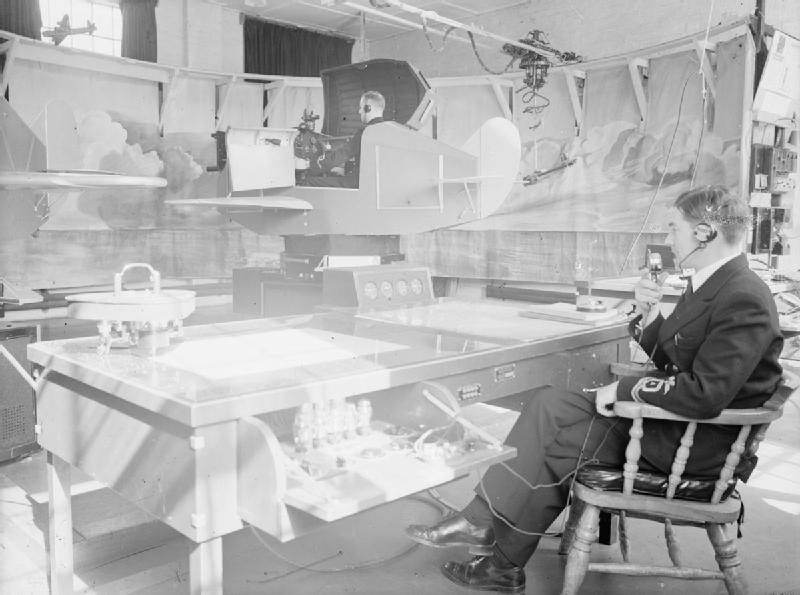 Activities at Royal Naval Air Station Lee-on-solent, 13 To 17 September 1943 The Link trainer in action at the RNAS Lee-on-Solent. Here budding pilots receive their first training in blind flying while the instructing officer speaks to them by phone.